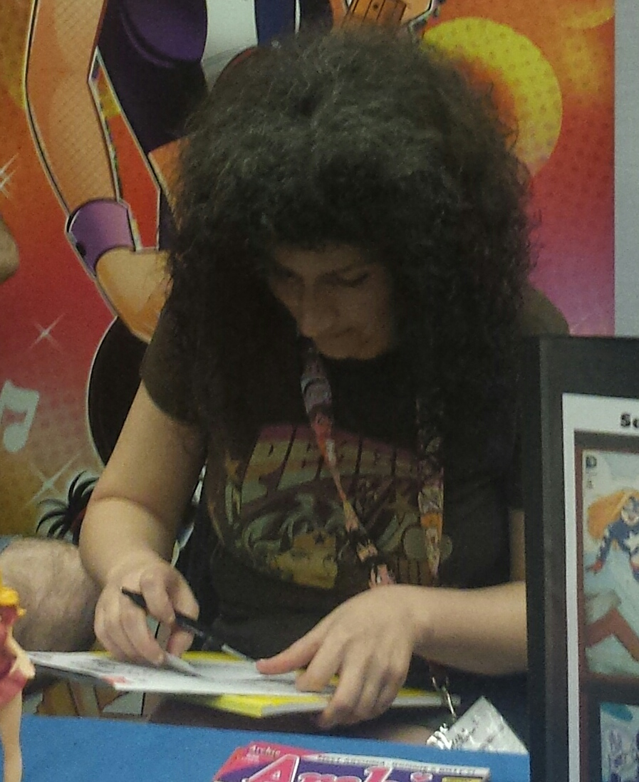 Gisèle Lagacé photographed in Montreal, Quebec, Canada at the Montreal Comiccon.